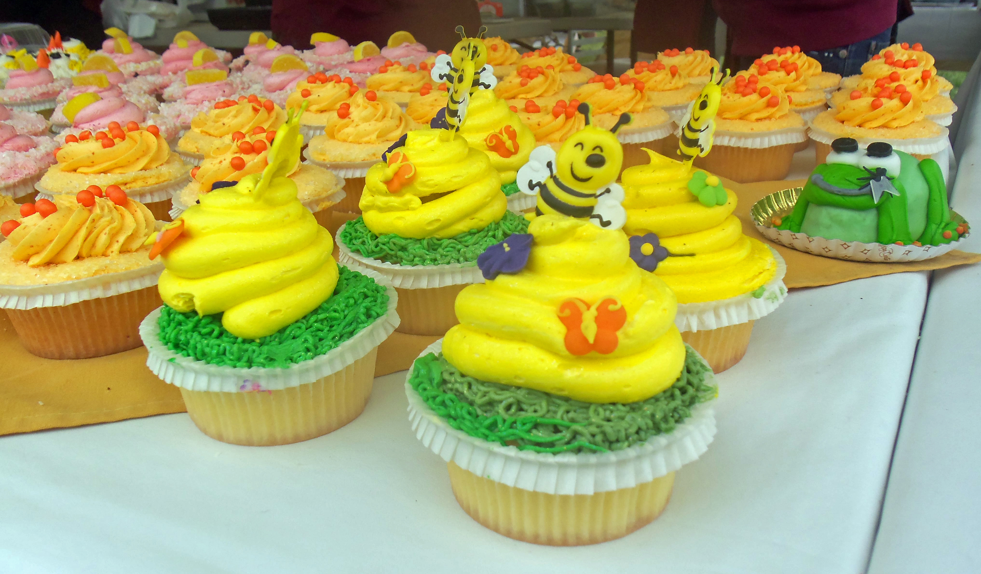 Cupcakes with icing sculpted to resemble bees at the 2013 Gardiner, NY, cupcake festival